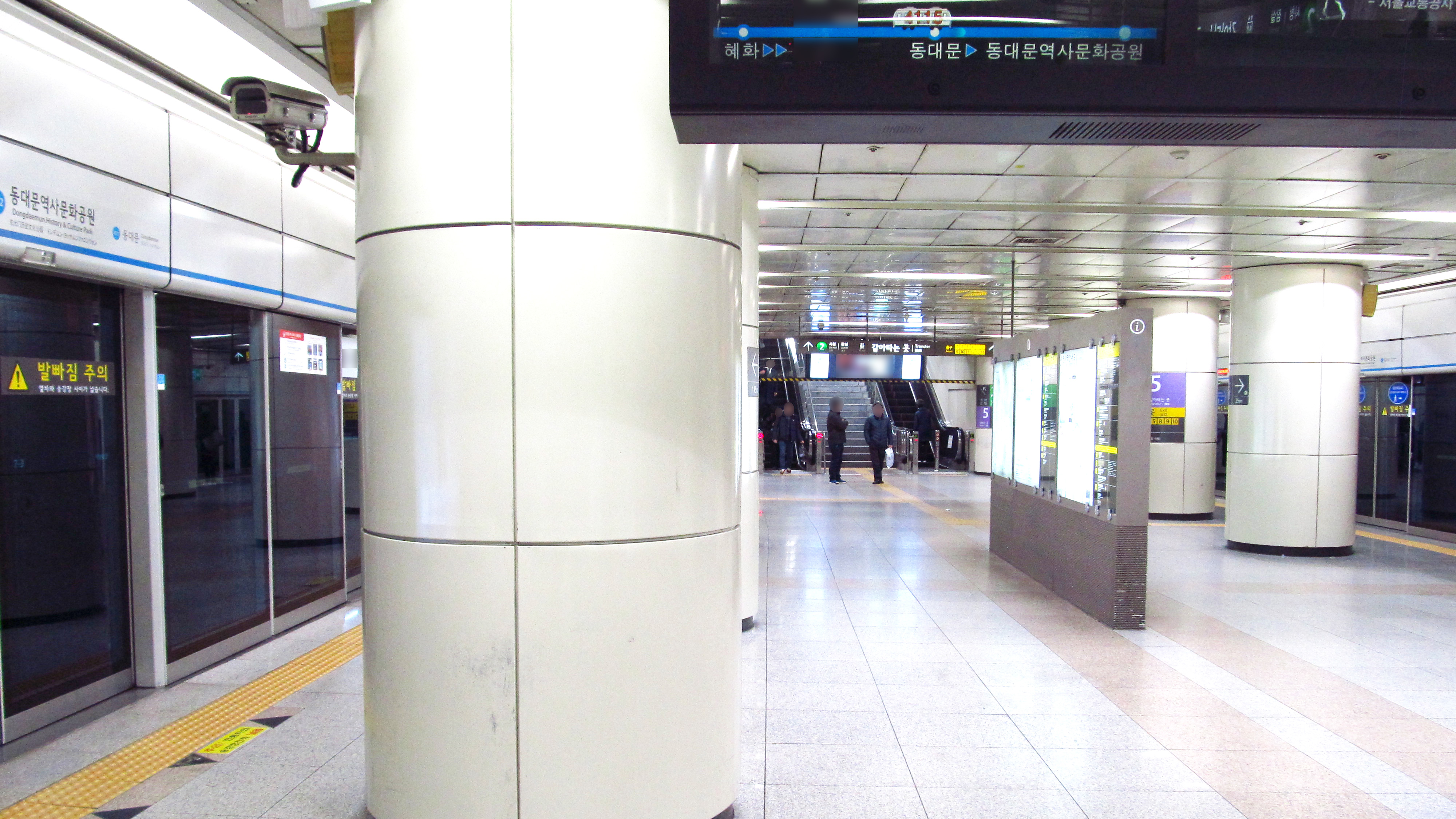 The platform at Dongdaemun History & Culture Park Station on Seoul Subway Line 4 in Jung-gu, Seoul, Republic of Korea(South Korea)